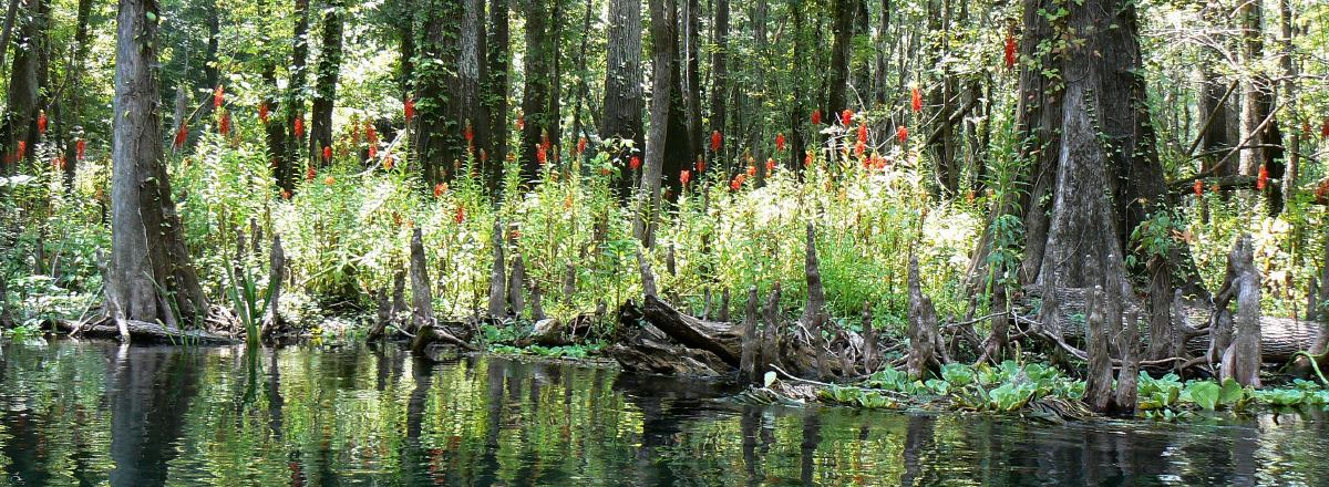 Cardinal flower (Lobelia cardinalis) on bank of Ichetucknee River, in Ichetucknee Springs State Park, Columbia Co., Florida USA